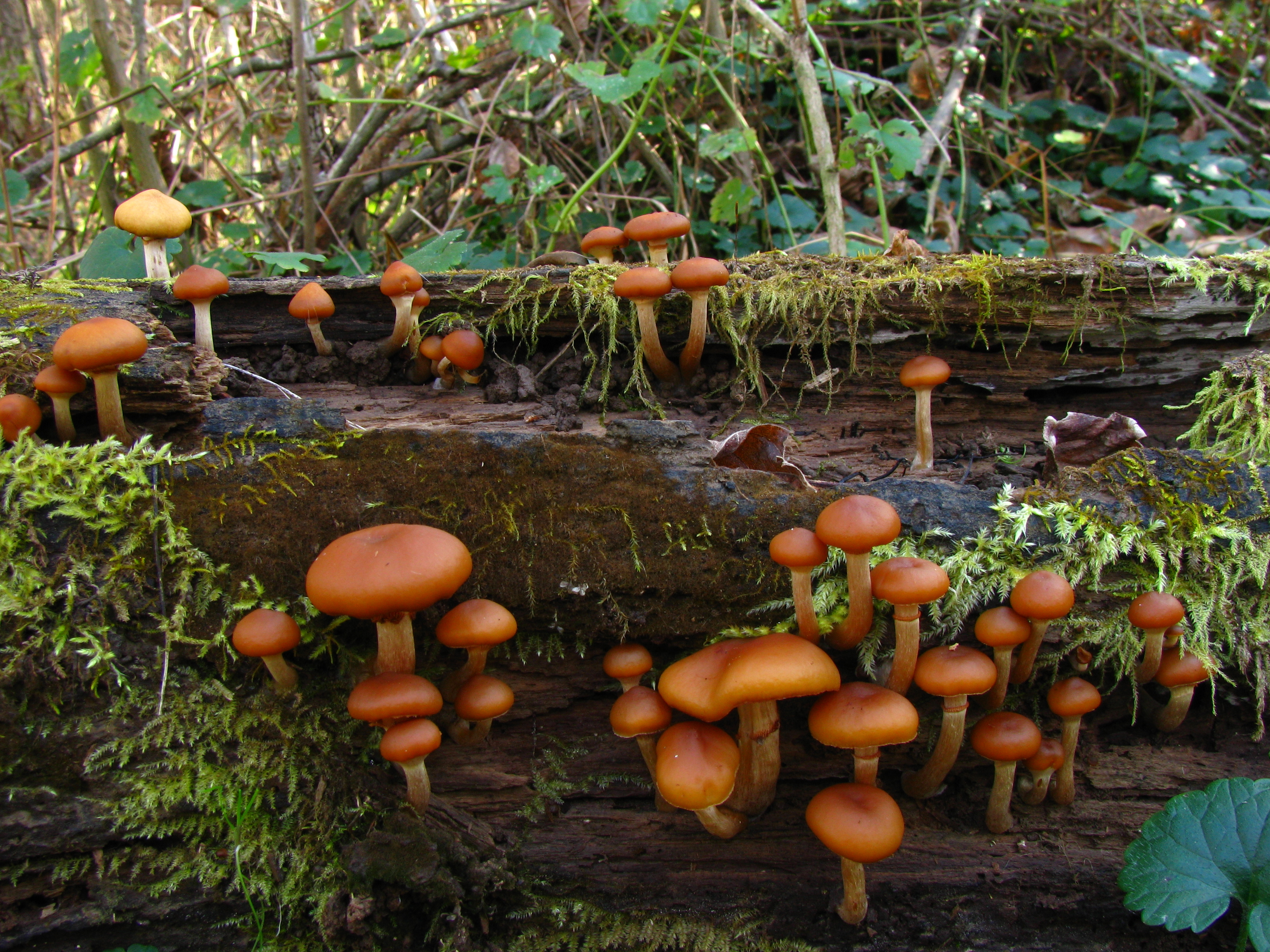 The toxic mushroom Galerina marginata (Batsch) Kühner. Originally identified as Galerina autumnalis (Peck) A.H. Sm. & Singer, the former is now known to be the preferred synonym. Specimens photographed in Strouds Run State Park, Athens, Ohio, USA. Notes: "Found on a rotting log in a low lying bottom area near where a stream runs into a lake. The image shows both umbonate and umbilcate forms fruiting from the same colony."